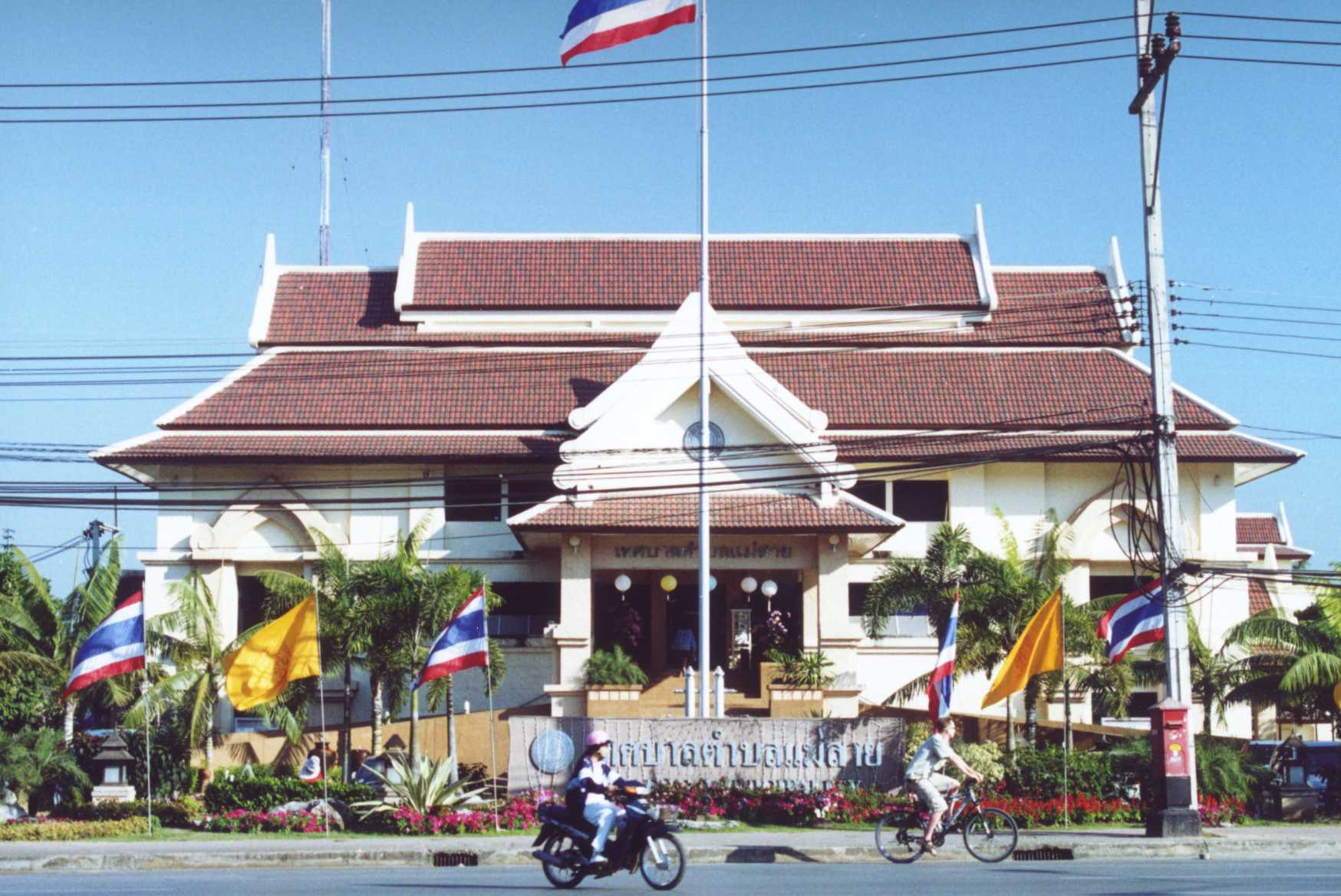 Town hall of Thesaban Tambon Mae Sai, Chiang Rai Province, Thailand. Photo taken on February 2 2006 by User:Ahoerstemeier.